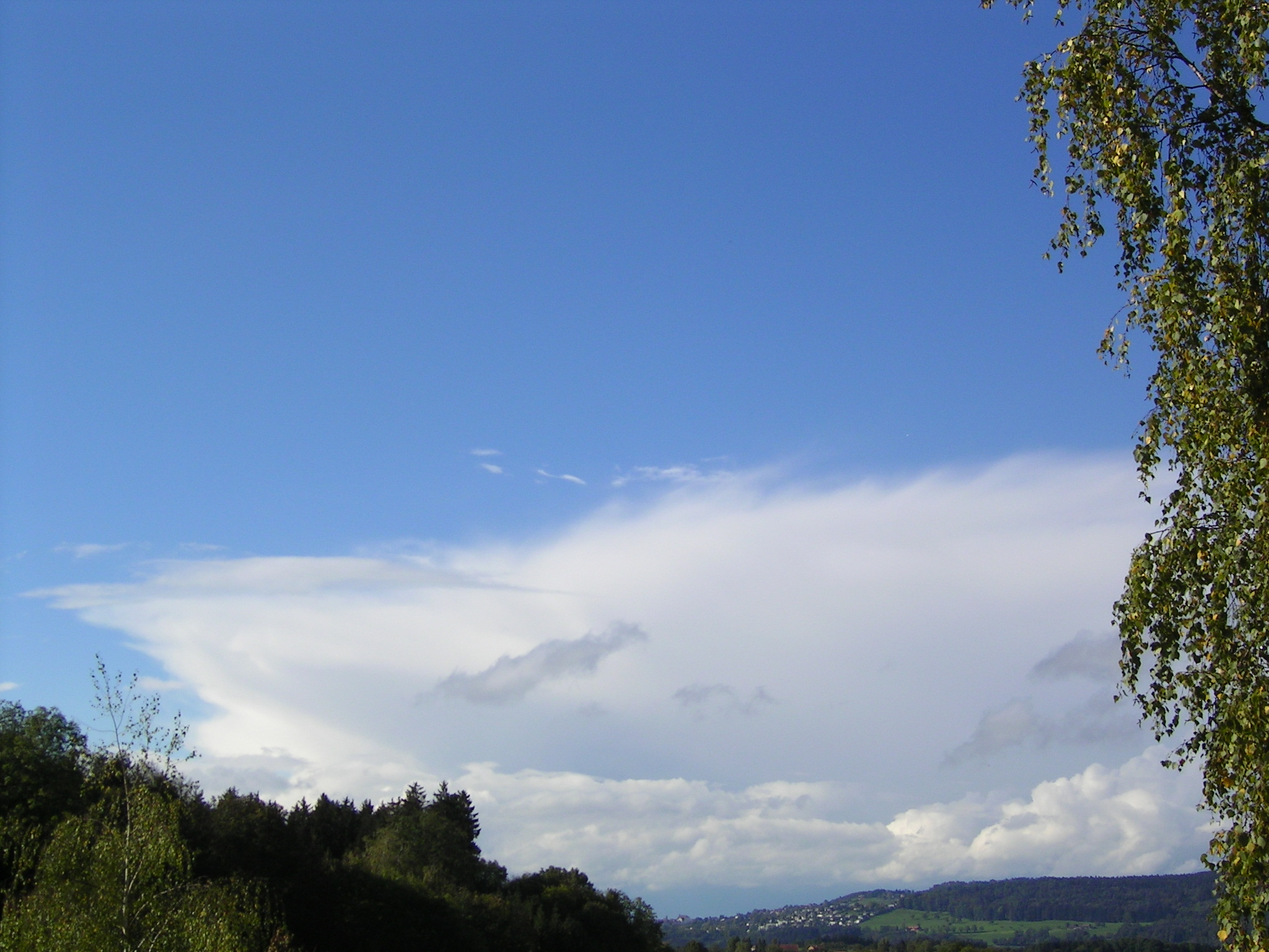 Description: Cirrus spissatus cumulonimbogenitus; CH = 3 Source: Simon Eugster --Simon 07:47, 10 December 2005 (UTC)